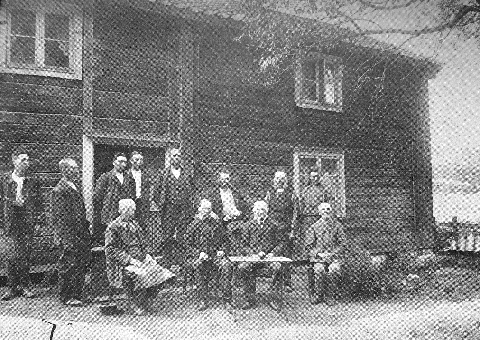 Picture of byalaget during a village meeting in Kila village, Hycklinge, Östergötland